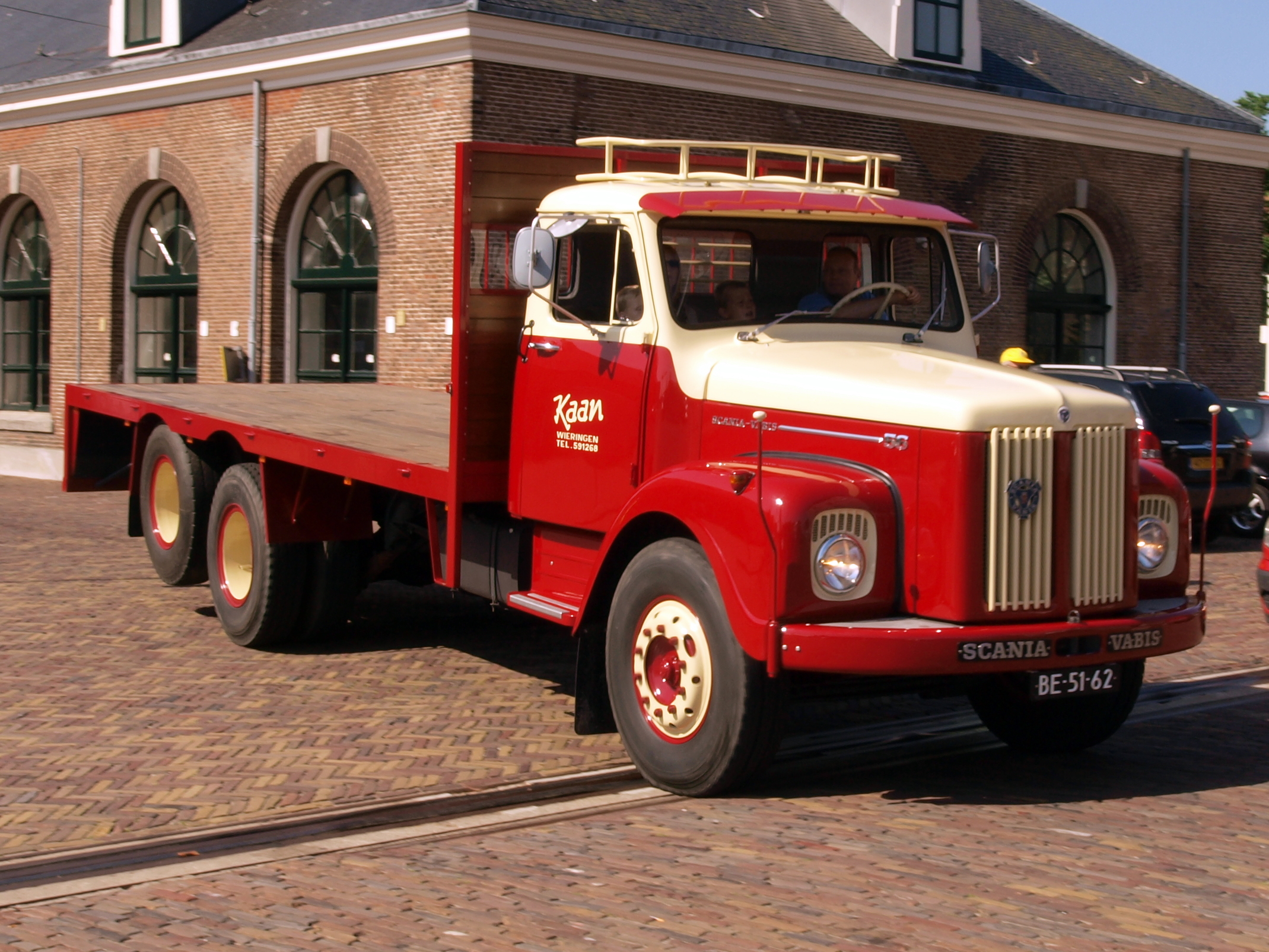 Photographed at Den Helder, The Netherlands. OLYMPUS DIGITAL CAMERA